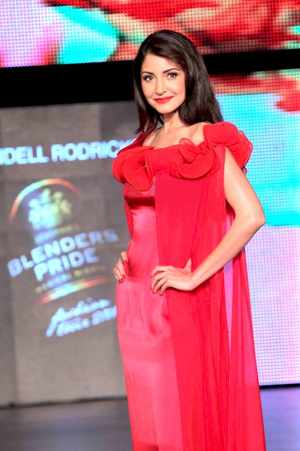 Anushka Sharma at Blenders Pride Fashion Tour 2011 show in Delhi on 19 September 2011